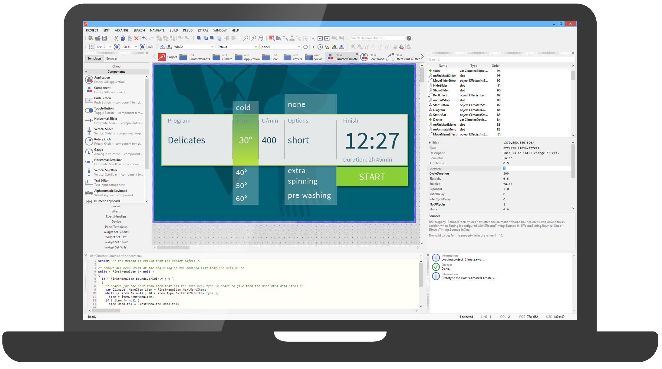 IDE of Embedded Wizard